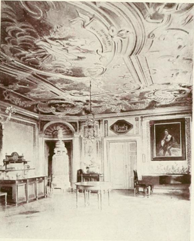 Dining hall (Castle, Acsa)